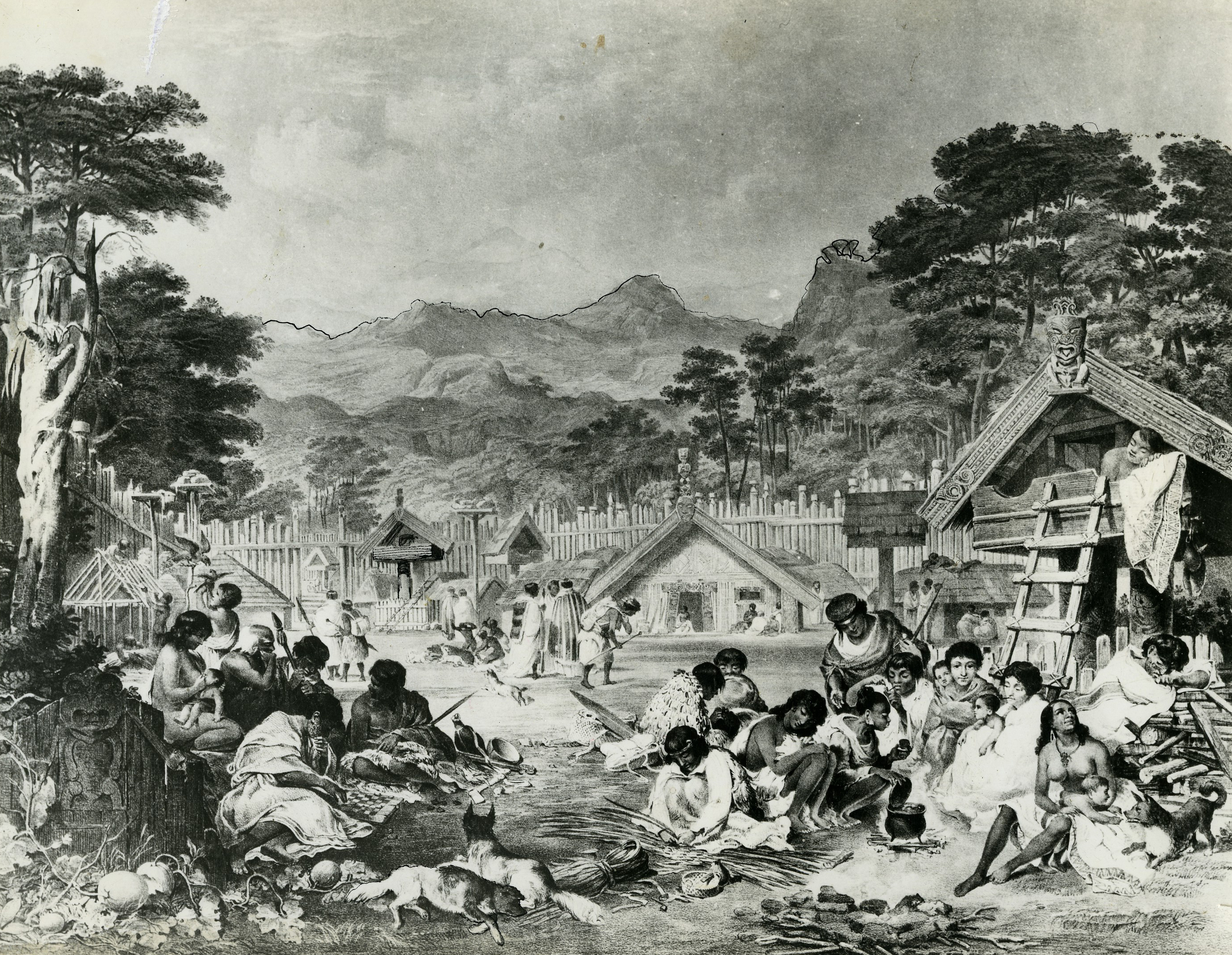 Pūtiki pā on the Whanganui River in 1850, based on a now-lost oil painting by John Alexander Gilfillan. In April 1847 six young upriver Māori attacked Gilfillan’s farm near Whanganui, killing his wife Mary and three of their children. Māori from Pūtiki played a key role in the capture of these men. Pūtiki was the principal Māori settlement near the Whanganui River mouth, opposite the modern-day town. Māori from Pūtiki signed Edward Jerningham Wakefield’s deed of purchase for Whanganui, although prominent chiefs such as Te Ānaua later described the purchase as ‘of no significance’. The Church Missionary Society established a mission station next to the settlement and many of the pā’s leaders converted to Christianity. In the conflict that threatened Whanganui in 1847, and again in 1864, Pūtiki Māori fought alongside the Crown against Māori from the upper reaches of the Whanganui River. Archives Reference: AAME W5603 Box 117/ 11/14/70 Material from Archives New Zealand Caption from